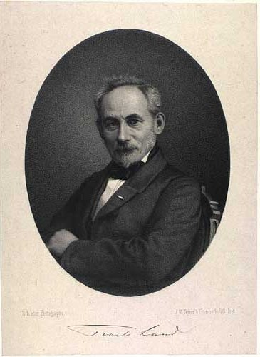 Troels Lund (1802-1867), Danish painter and politician